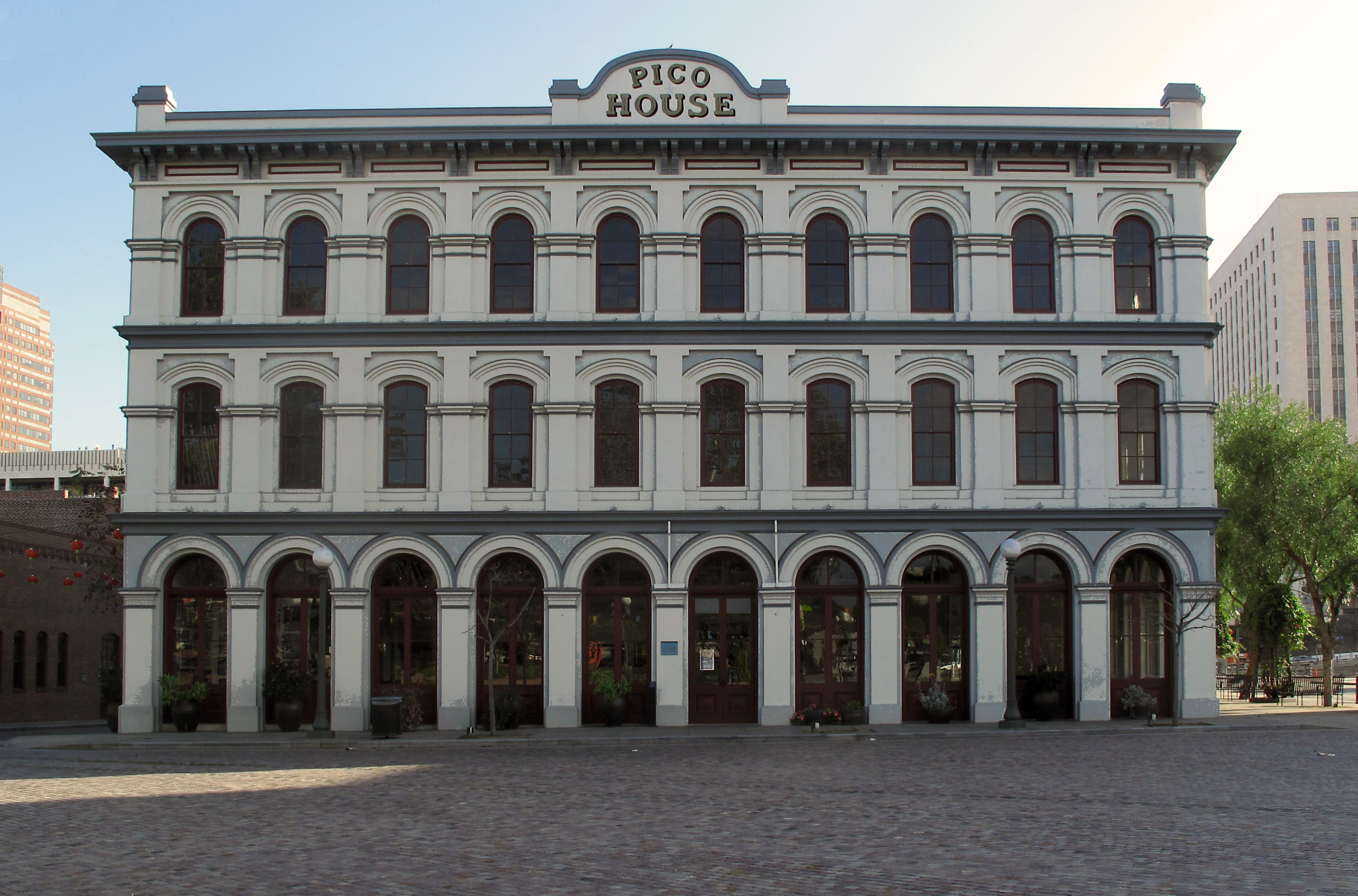 The Pico House — part of the El Pueblo de Los Angeles Historic Monument, in downtown Los Angeles, California. 19th-century hotel and present day museum.